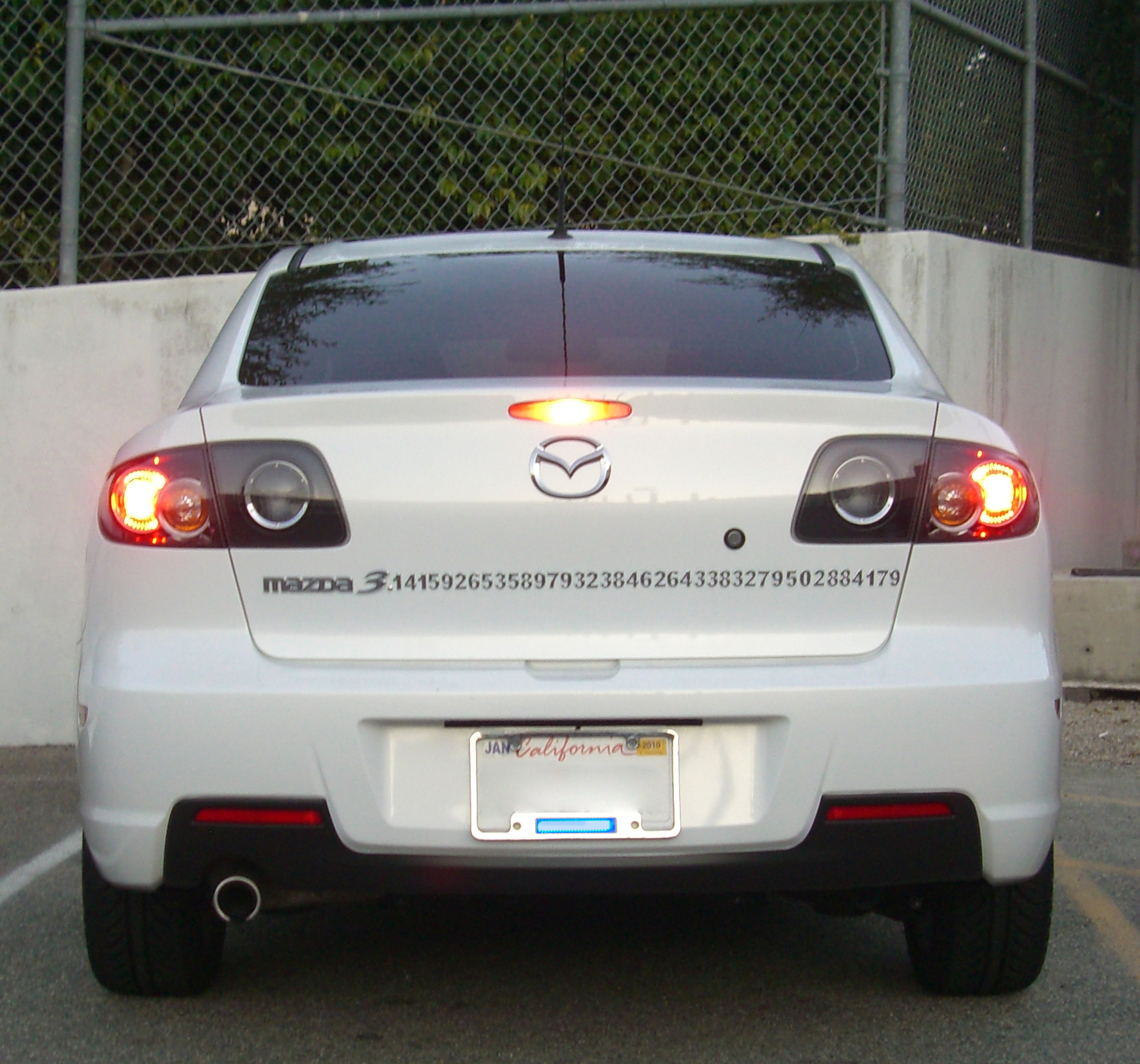 A modified vehicle with an approximation of the number "pi" extending out from the "Mazda 3" logo. This custom modification exemplifies the mathematical appreciation that is stereotypical of "geeks." This is my Mazda-Pi. You'll probably see it zoom zooming around Irvine, CA. (Note: the last two digits shown are the wrong way round.)